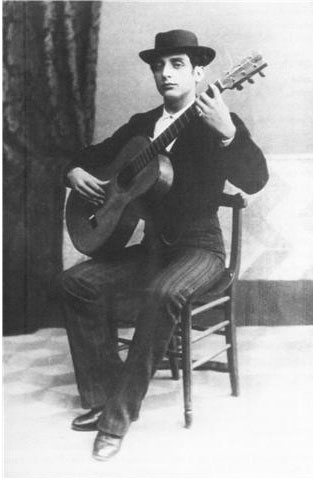 Flamenco guitarist Paco de Lucena (1858-1898)